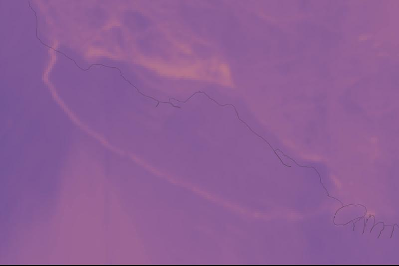 Image of the Larson C Ice Shelf captured by NASA on July 12, 2017, showing the complete breakoff of part of the ice shelf